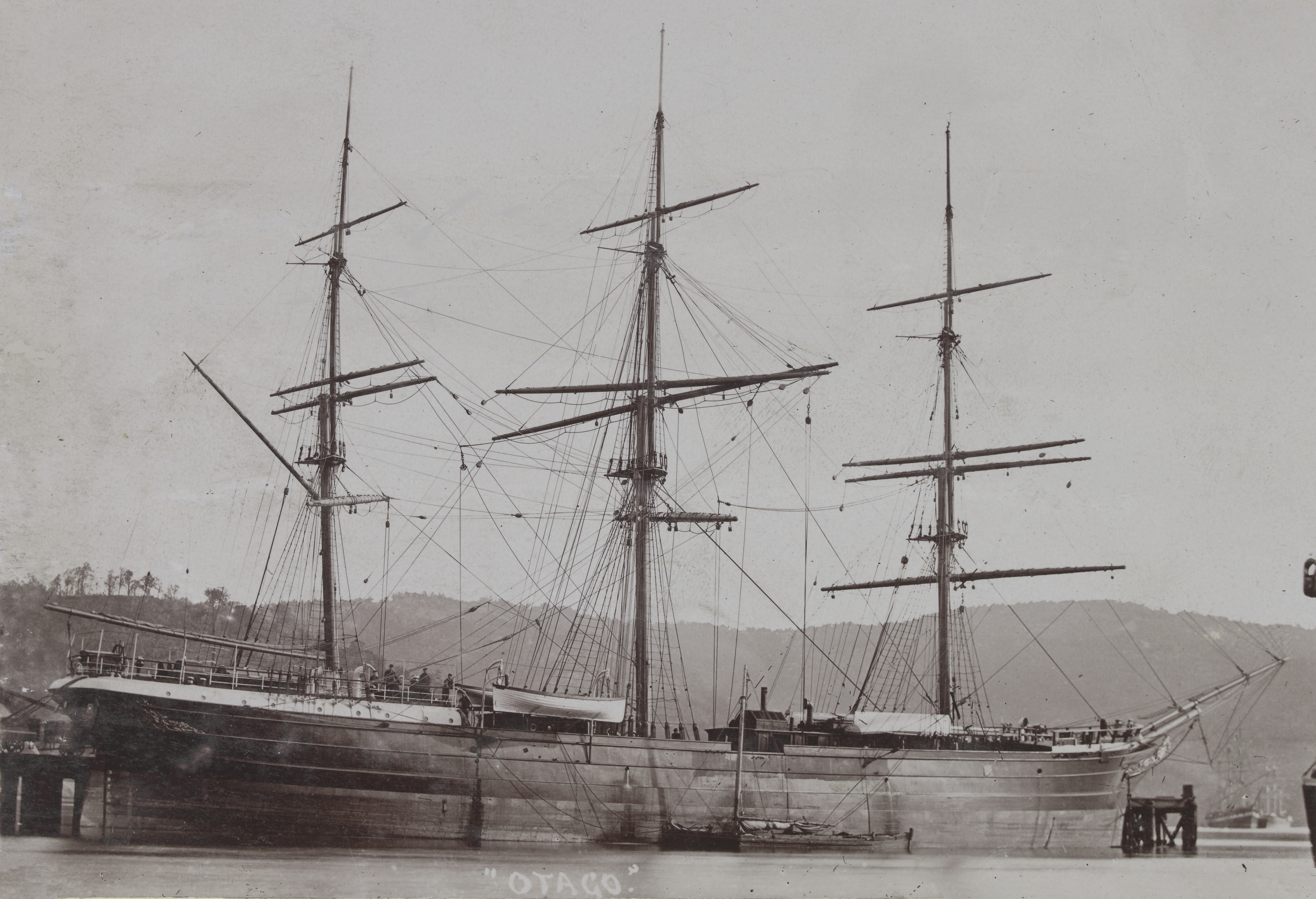 Original caption: “OTAGO. Glasgow. 970 tons. Built at Pt Glasgow. 1869. Afterwards sold to Sweden[sic!]. Three masted barque, sold to Portuguese renamed Ermilla, sunk during WWI..”